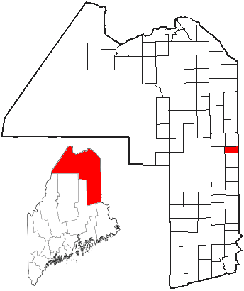 Adapted from U.S. Census Bureau maps (American FactFinder) and Wikipedia's ME county maps by Bumm13.